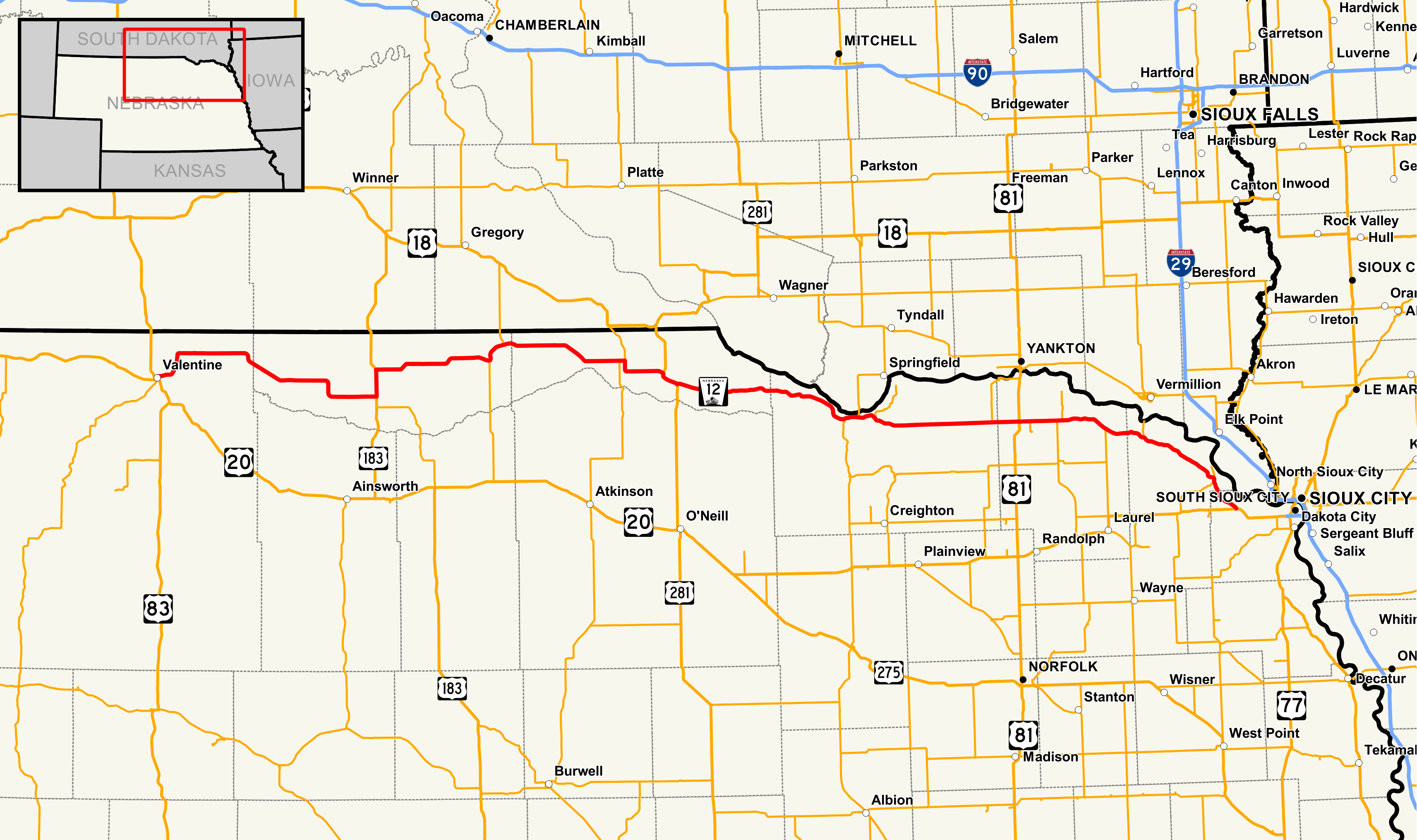 Map of Nebraska Highway 12 Data Sources: Nebraska Highways - - Dec 2016 Nebraska County Boundaries - - Dec 2016 Nebraska City Boundaries - - Dec 2016 This PNG graphic was created with QGIS